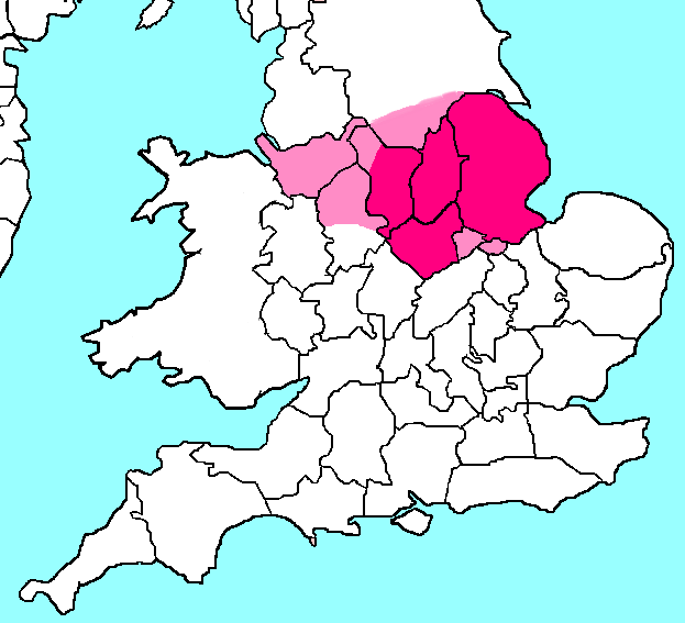 Map of counties in the North Midlands of England. Counties typically included are in pink, counties sometimes included are in light pink.